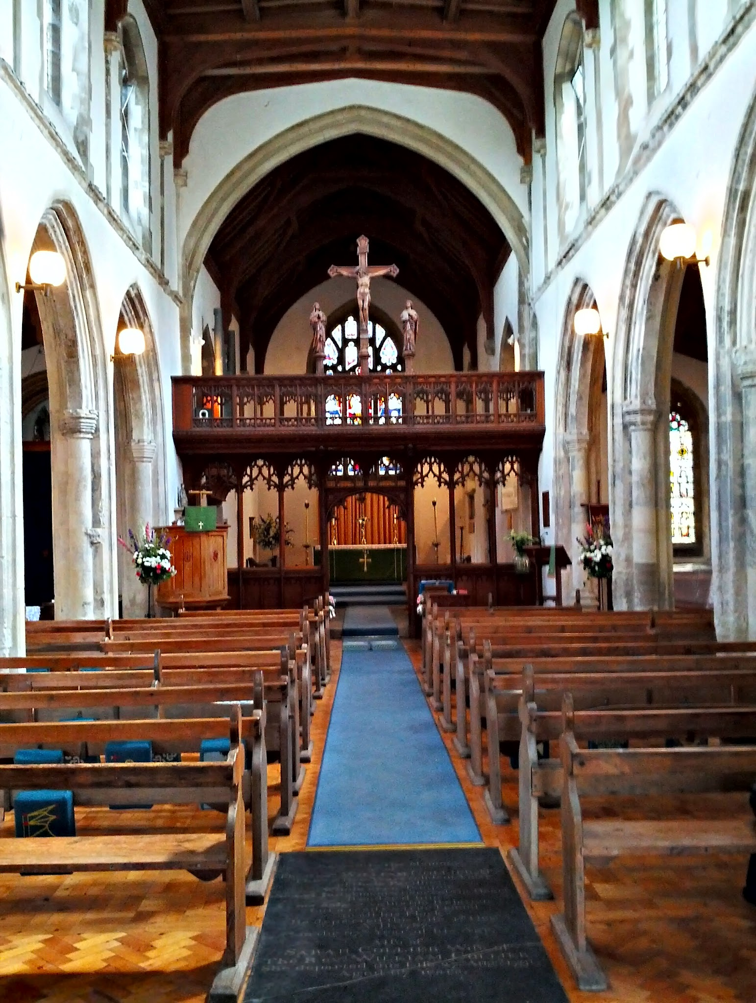 Church interior